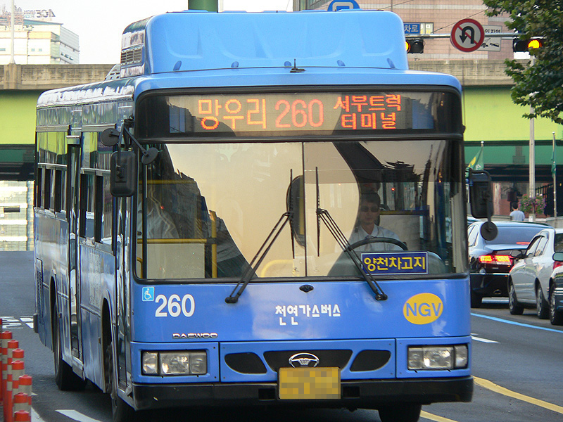 Seoul City Bus No. 260.